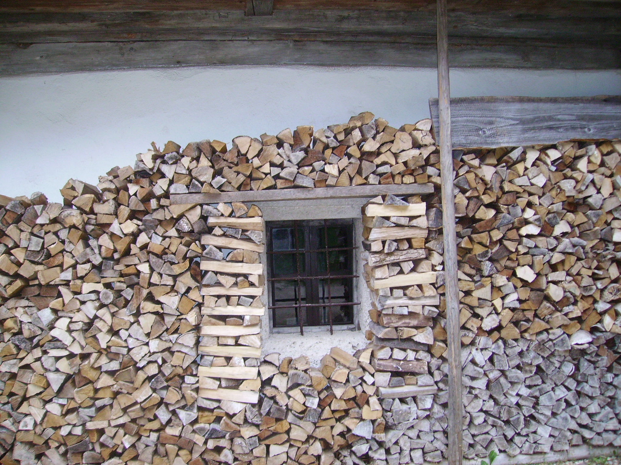 Freilichtmuseum Salzburg